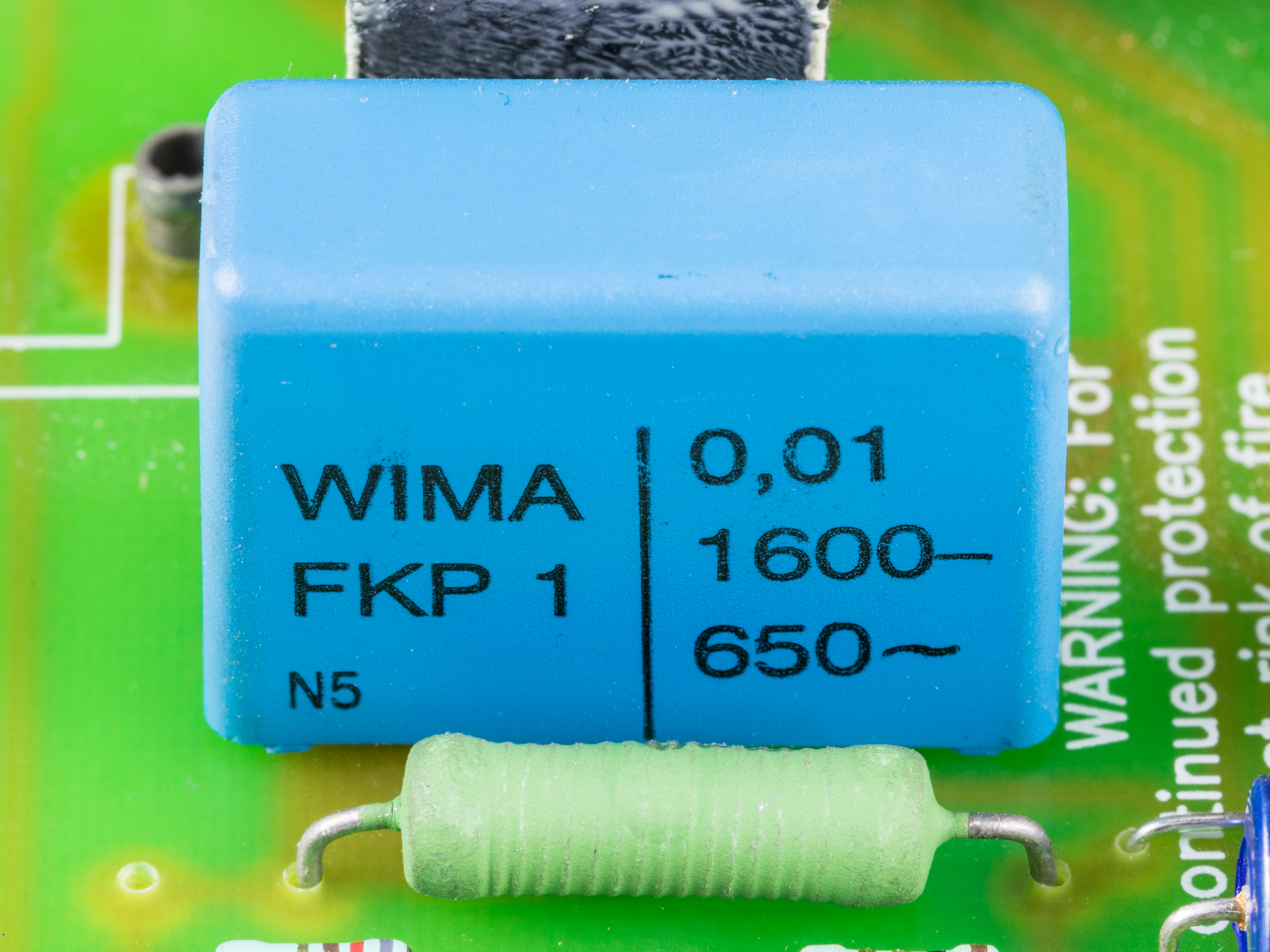 Nedap ESD1 - power supply board 1 - WIMA FKP 1 - Polypropylene (PP) Capacitor for Pulse Applications with Metal Foil